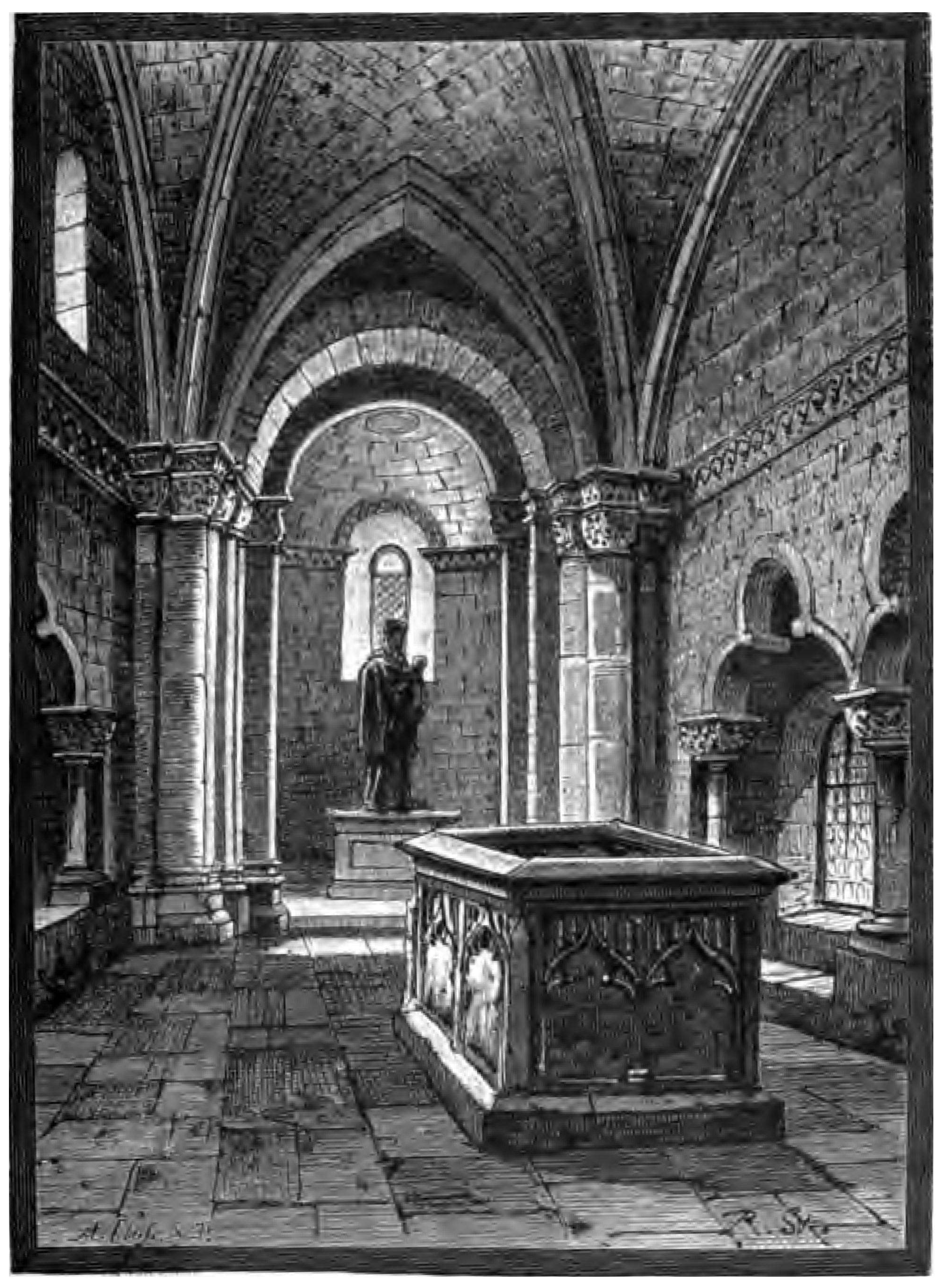 This is a scan of the historical document